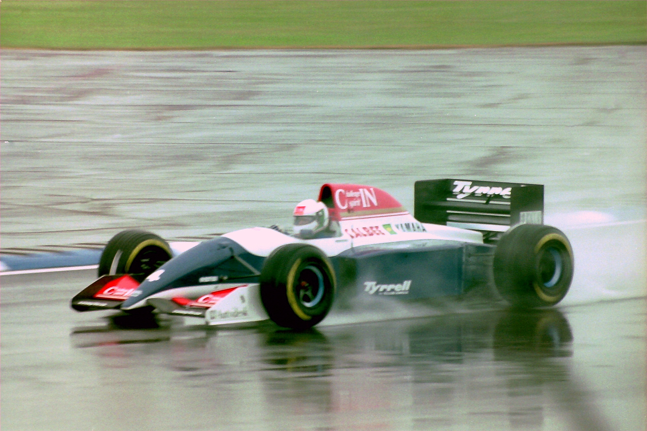 Andrea de Cesaris - Tyrrell 021 during practice for the 1993 British Grand Prix